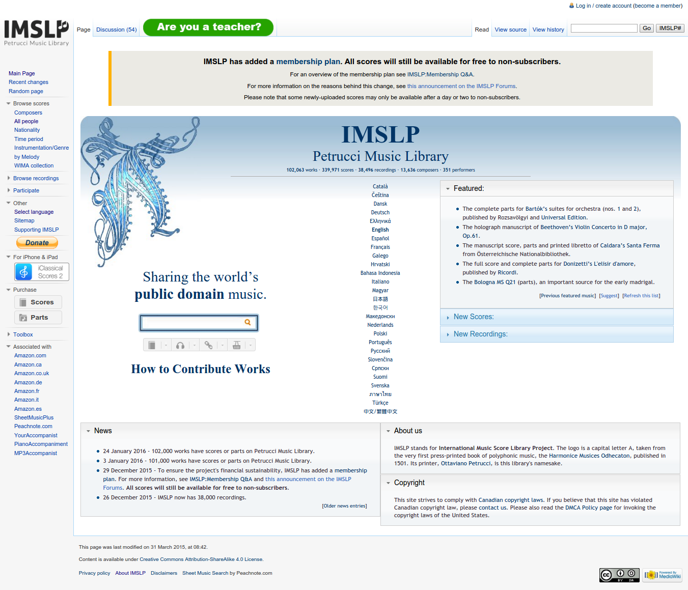 IMSLP main page 2016.